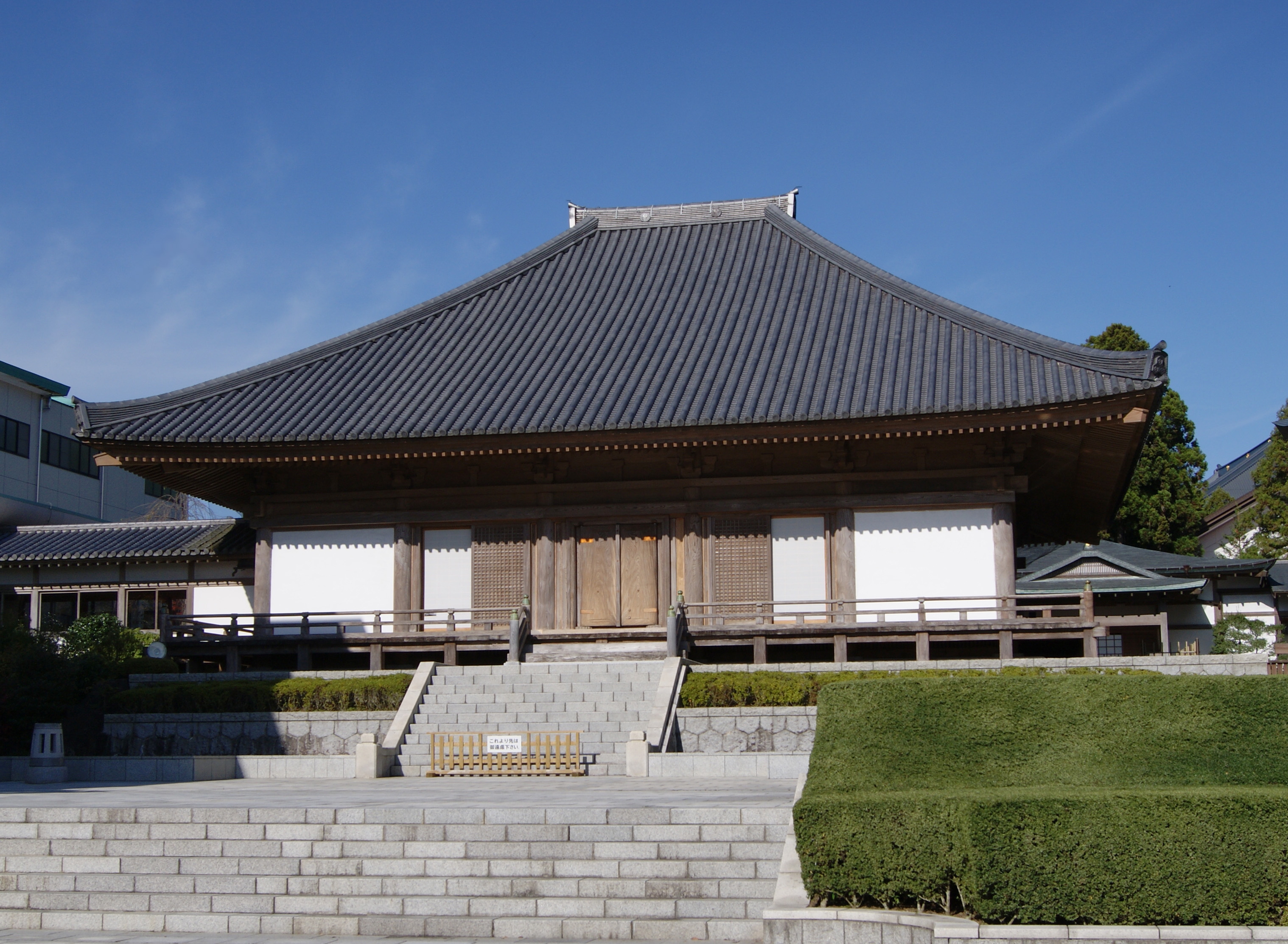 Mutsubo of Taiseki-ji.jpg